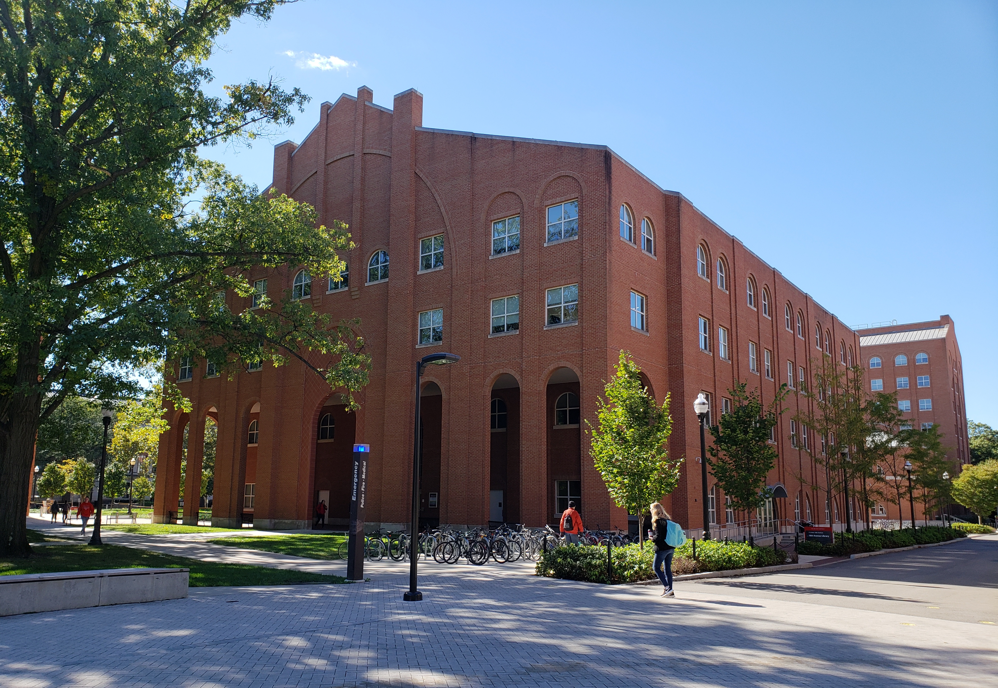 The exterior of 18th Avenue Library on the Ohio State University, as seen from the east north east.